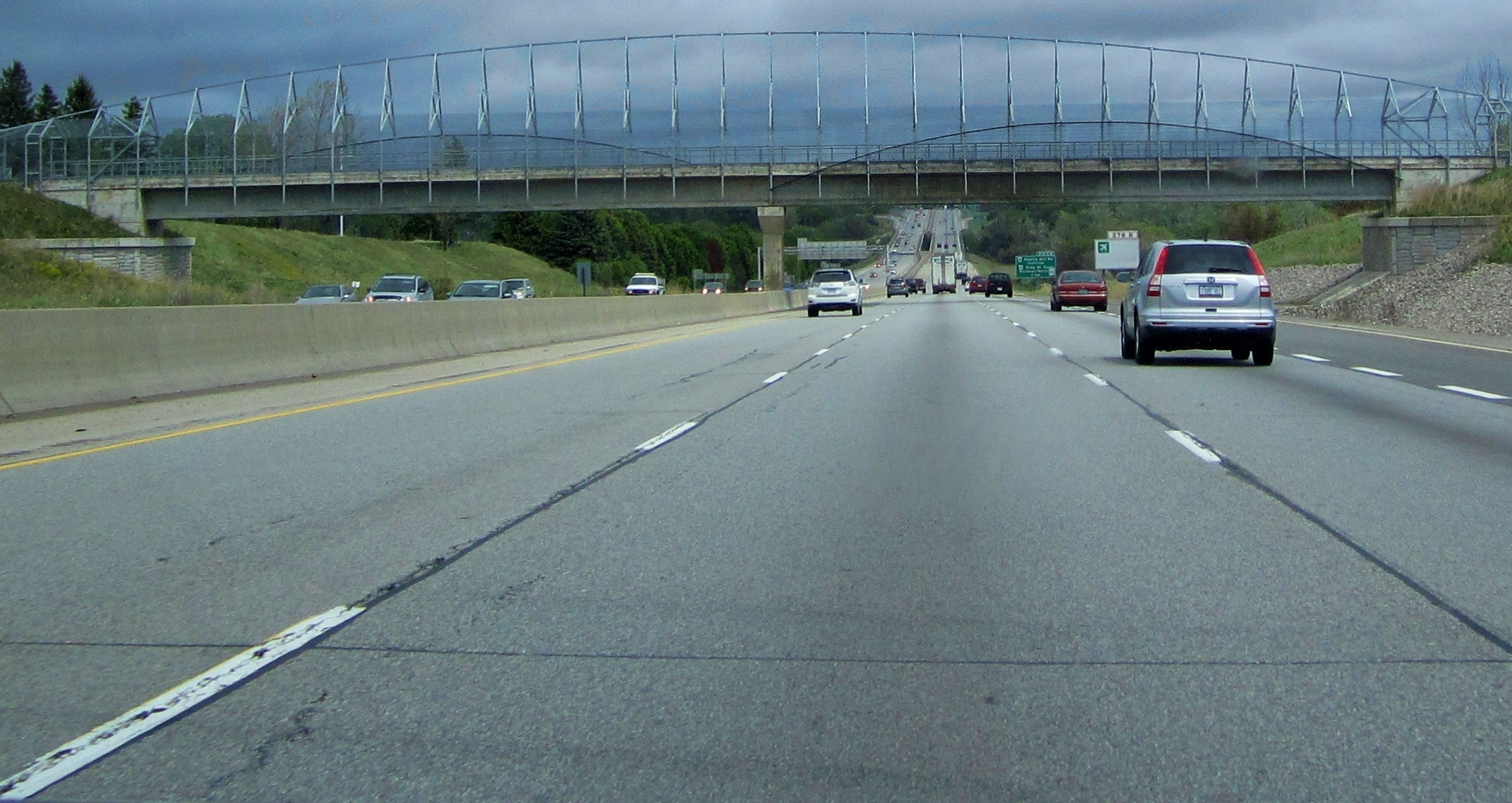 Highway 401 in Kitchener, looking eastbound at a pedestrian overpass with the bridge over the Grand River in the distance.